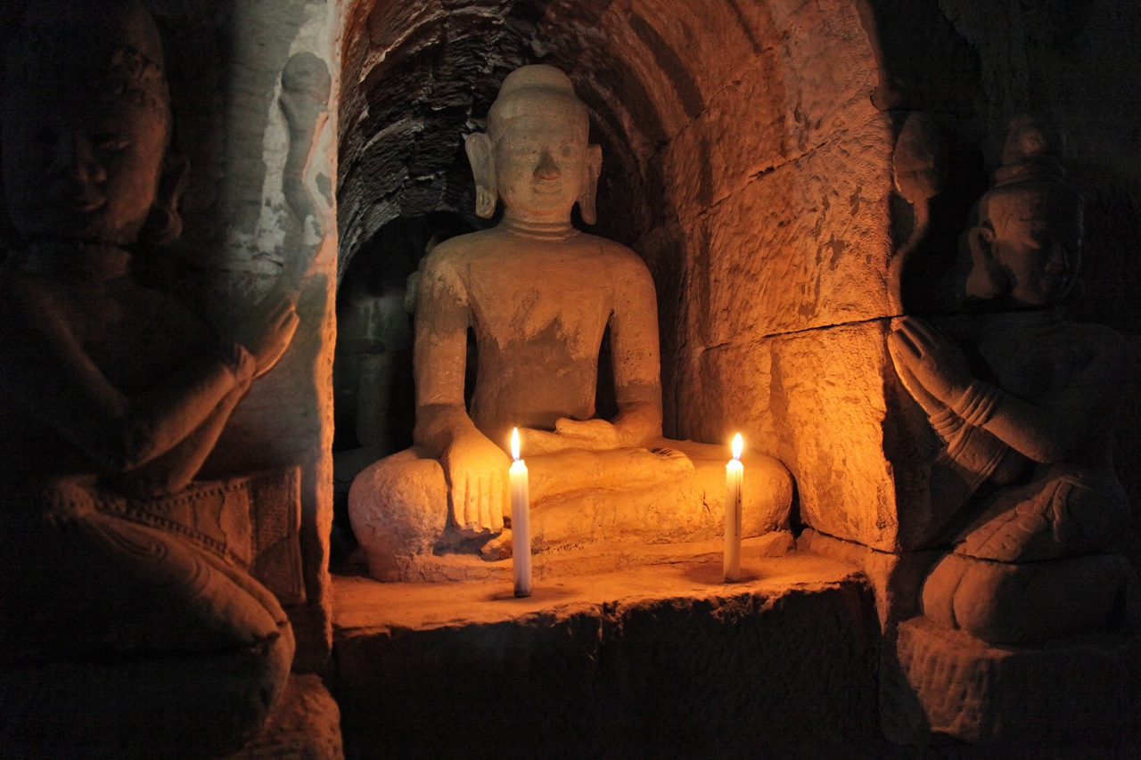 Buddhas in niches at Htu Kan Thein temple in Mrauk U